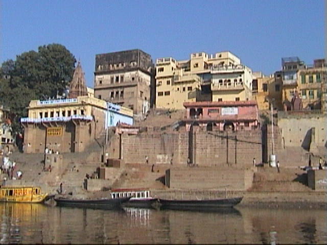 Hindu culture, have attributed supreme importance to the preservation of tradition Classical civilizations, and especially the Indian one, have attributed supreme importance to the preservation of tradition. Its central idea was that social institutions, scientific knowledge and technological applications need to use "heritage" as a "resource". Using contemporary language, we would say that ancient Indians considered, as social resources, both economic assets (like natural resources and their exploitation structure) and factors promoting social integration (like institutions for preserving knowledge and maintaining civil order). Ethics considered that what had been inherited should not be consumed, but should be handed over, possibly enriched, to successive generations. This was a moral imperative for all, except in the final life stage of sannyasa